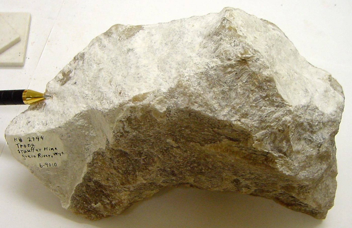 Trona (pen for scale) Collected from Stauffer Mine, Green River, Wyoming. Mineral collection of Brigham Young University Department of Geology, Provo, Utah. BYU index 9-9010